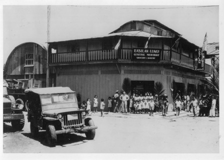 Basilan City pic circa 1945 post-war